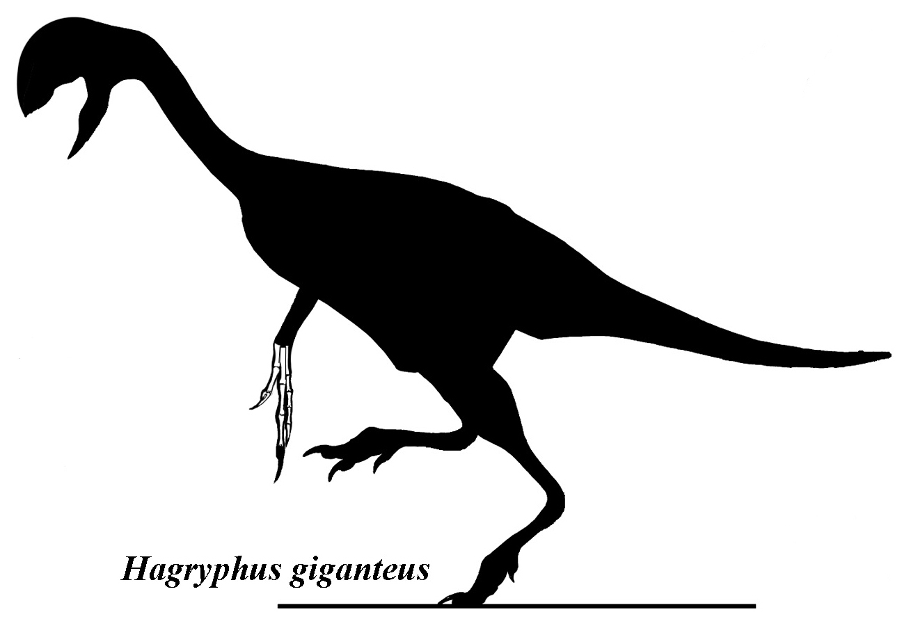 Skeletal reconstruction of Hagryphus giganteus.